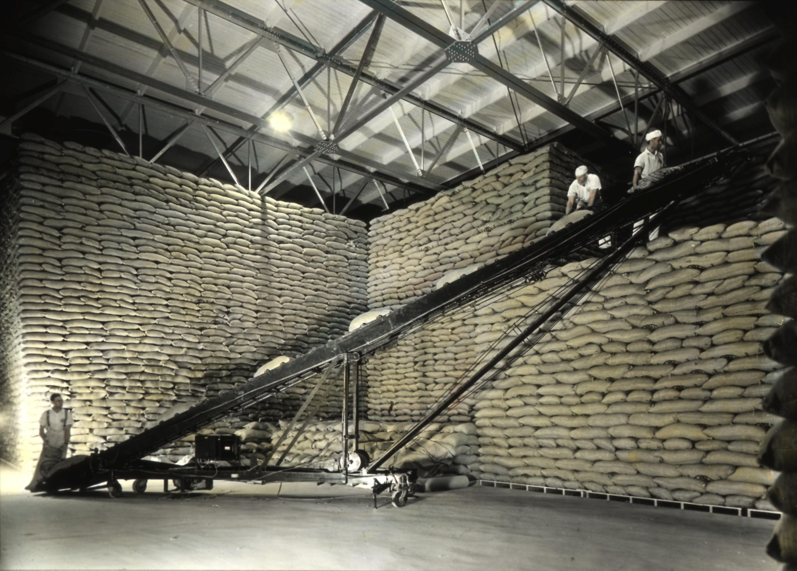 Original Collection: Visual Instruction Department Lantern Slides Item Number: P217:set 053 013 You can find this image by searching for the item number by clicking here. Want more? You can find more digital resources online. We're happy for you to share this digital image within the spirit of The Commons; however, certain restrictions on high quality reproductions of the original physical version may apply. To read more about what “no known restrictions” means, please visit the Special Collections & Archives website, or contact staff at the OSU Special Collections & Archives Research Center for details.